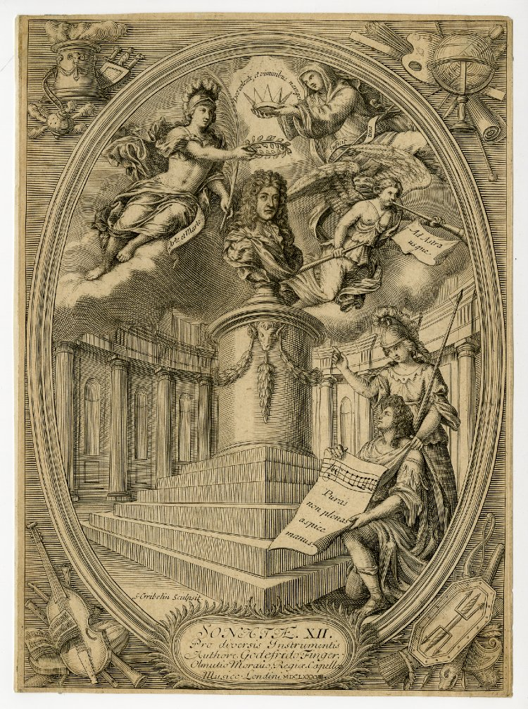 Frontispiece to Gottfried Finger "Sonatae XII Pro diversis Instrumentis," London, 1688